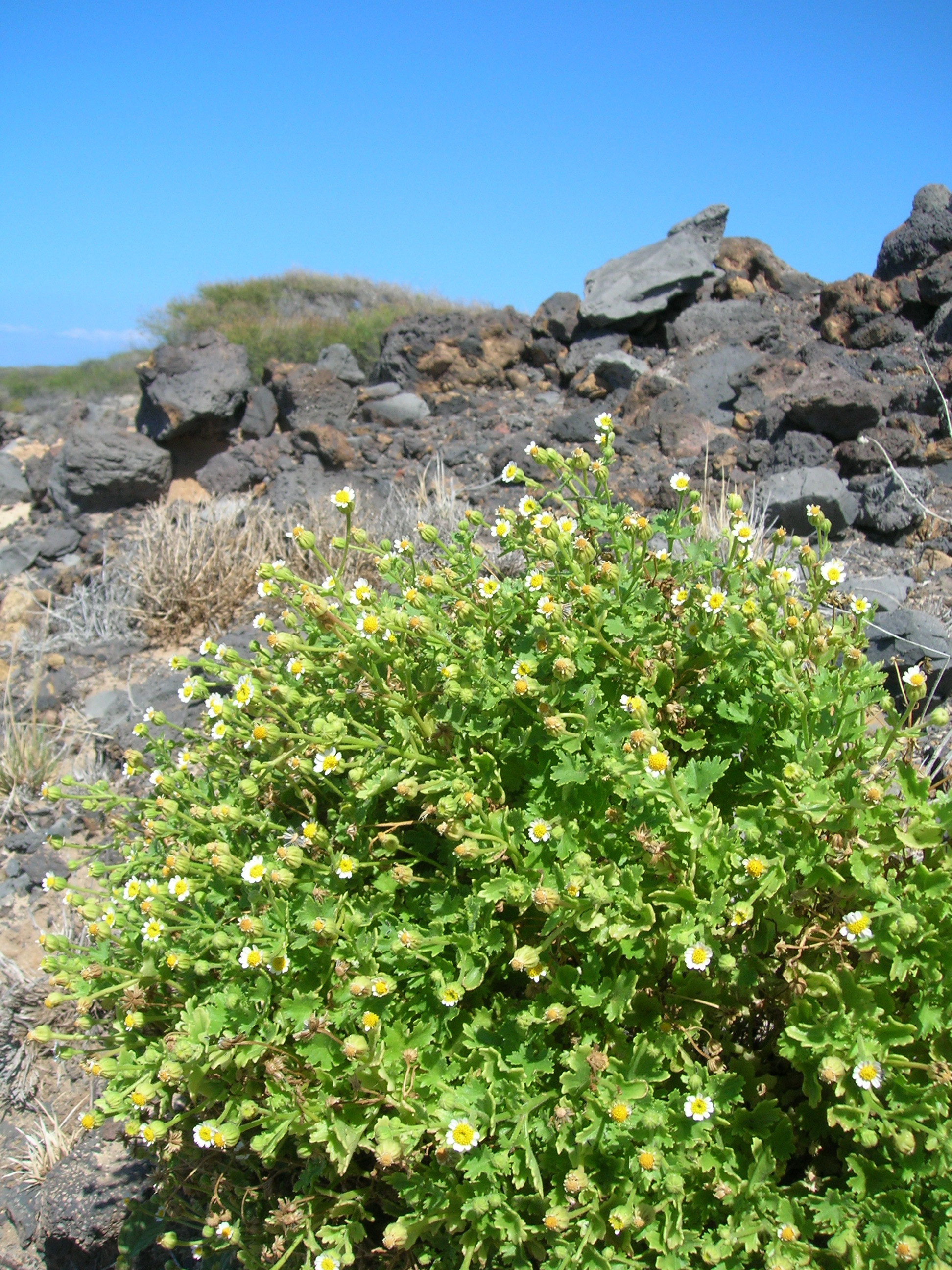 Perityle emoryi (habit). Location: Kahoolawe, Sailors Hat